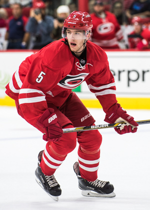 Noah Hanifin. Carolina Hurricanes vs. Washington Capitals.